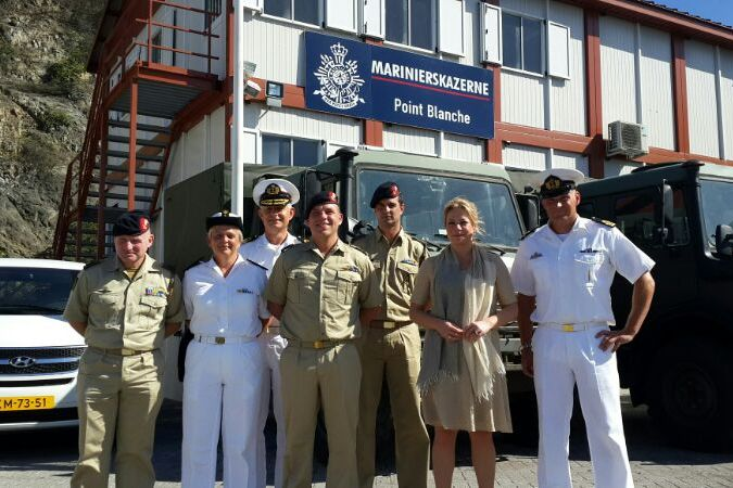 Minister of Defence, Jeanine Hennis-Plasschaert visits the six quartermaster of the new Point Blanche stupport station of the Royal Dutch Marines on the Caribic island of Sint Maarten.